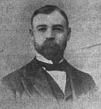 George Franklin Richards a member of the Quorum of the Twelve Apostles of The Church of Jesus Christ of Latter-day Saints (LDS Church) from April 9, 1906 until his death. He also served as Acting Presiding Patriarch of the LDS Church from 1937 to 1942 and President of the Quorum of the Twelve from May 25, 1945 until his death.